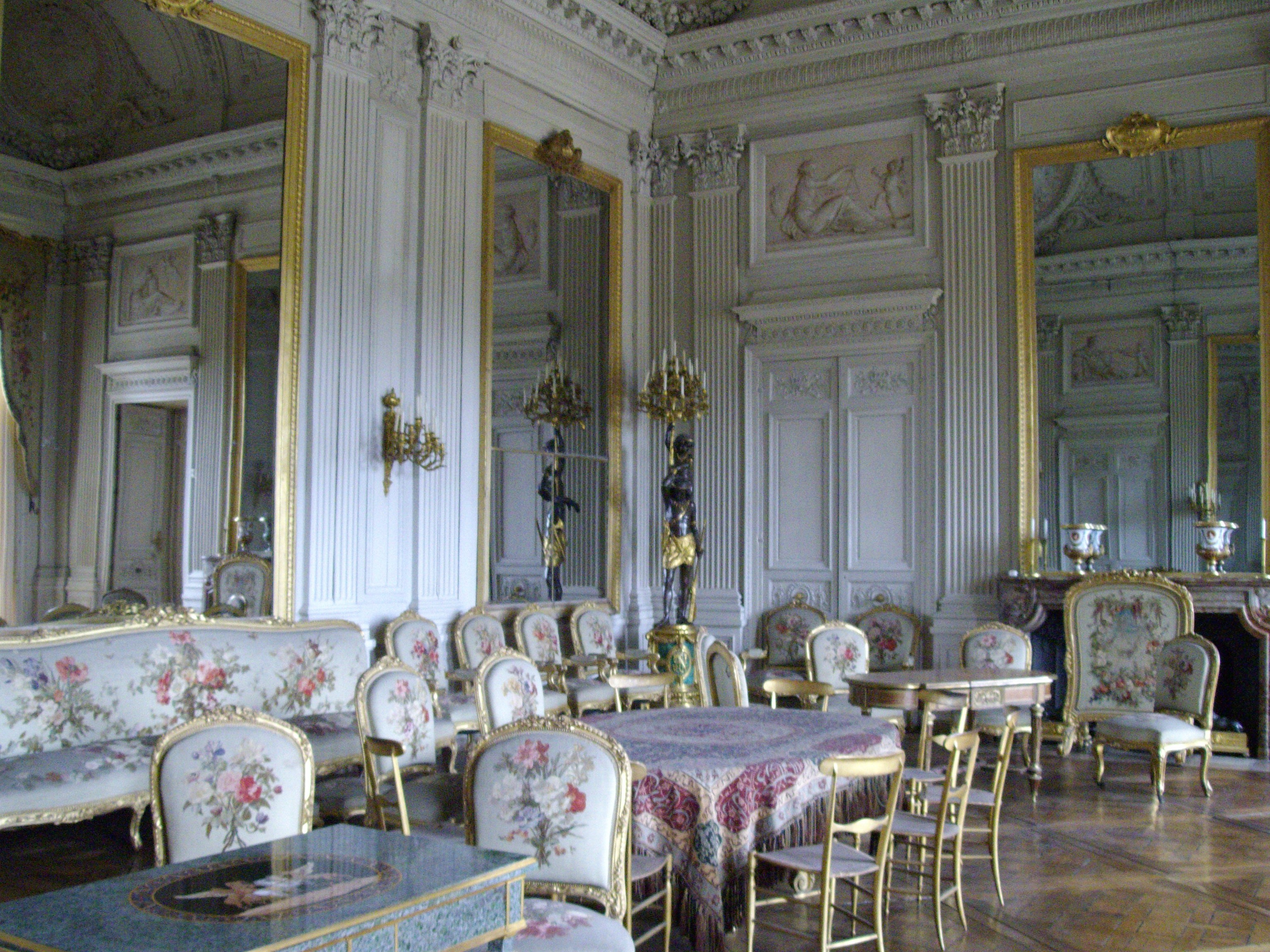 The Château de Compiègne in Compiègne in the Oise département (Picardie, France)